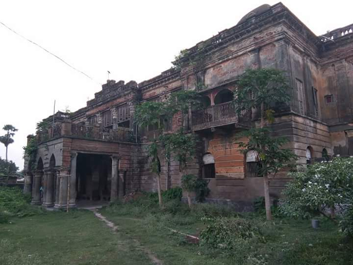 House of Jatindramohan Bagchi , Jamsherpur. Nadia